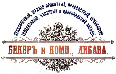 logo Liepaja steel factory 1888